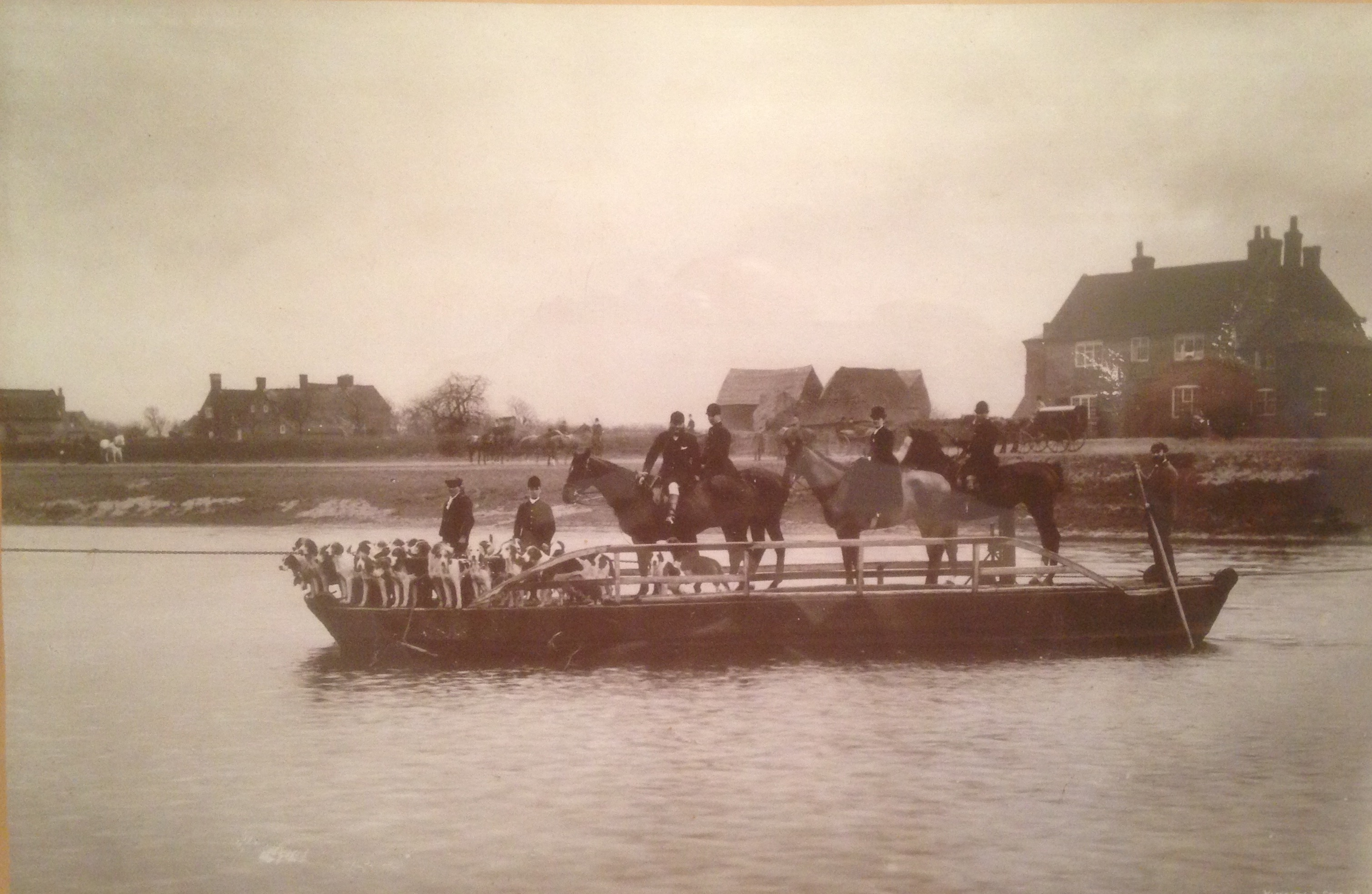 The 8th Earl crossing the River Trent on the 19th April 1890 with the South Notts hounds